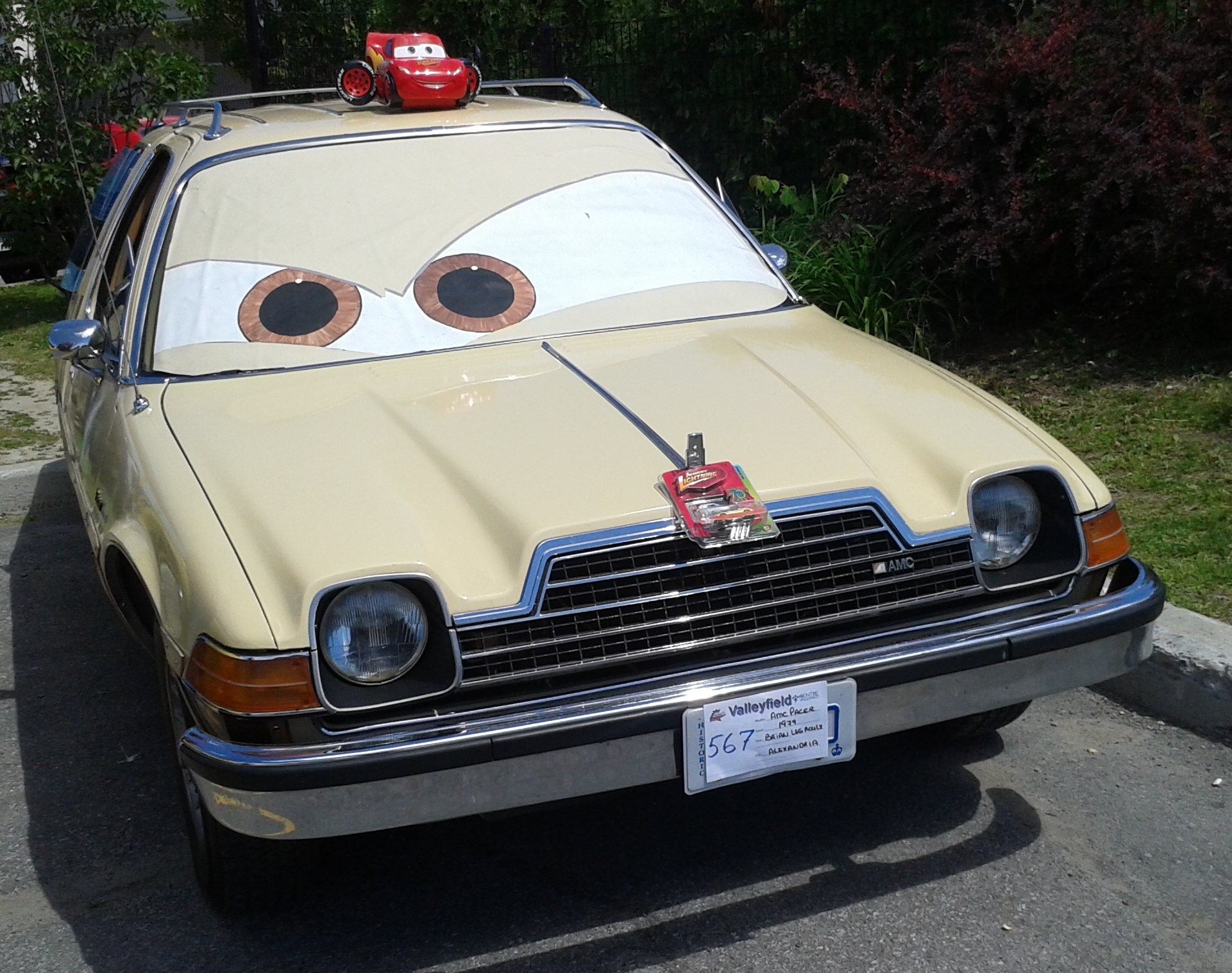 1979 AMC Pacer photographed in Salaberry De Valleyfield, Quebec, Canada at Rassemblement Mopar Valleyfield 2014.